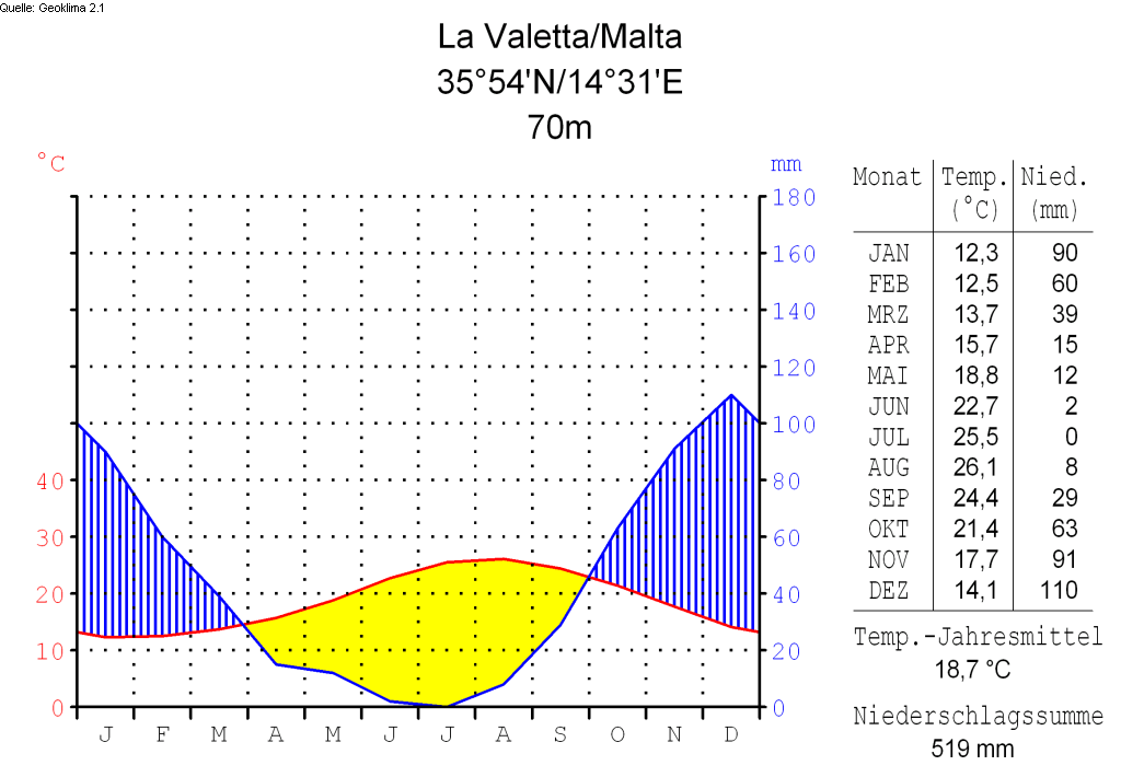 climate chart in the format by Walter and Lieth, metric, °Celsisus and millimeters, made with Geoklima 2.1